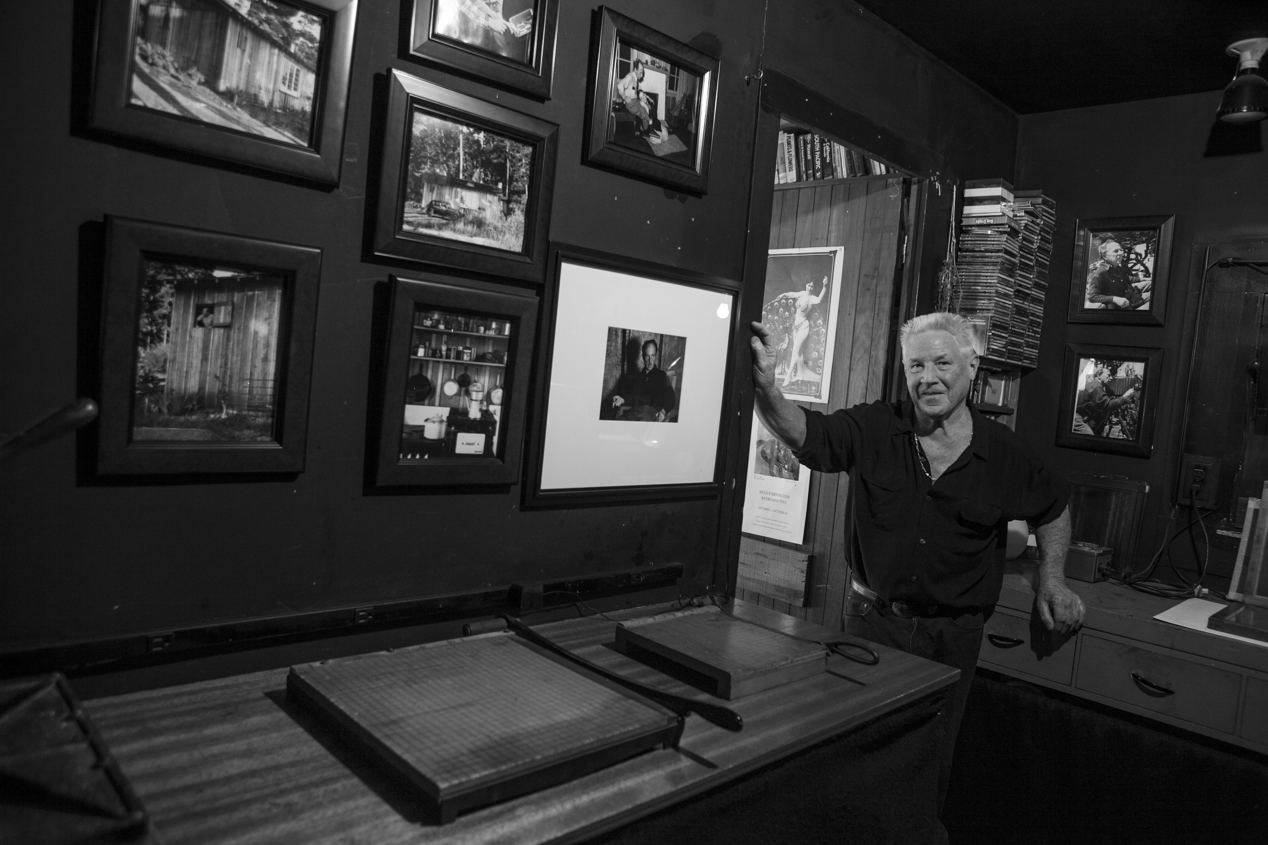 Kim Weston (American Photographer) in Edward Weston's Darkroom on Wildcat Hill.